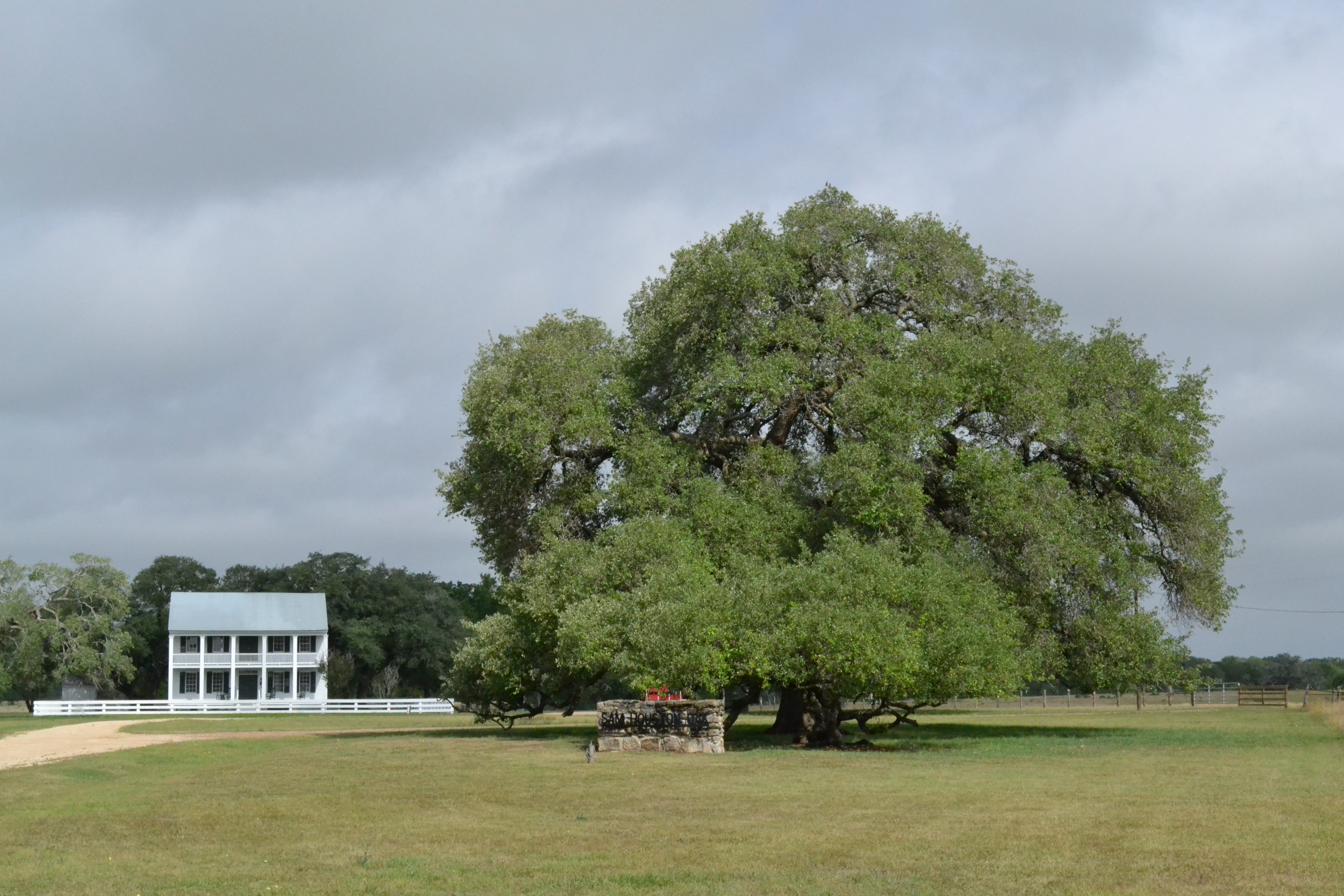 The Braches House and the Sam Houston Oak, east of Gonzales, Texas. The Braches House is listed on the National Register of Historic Places.